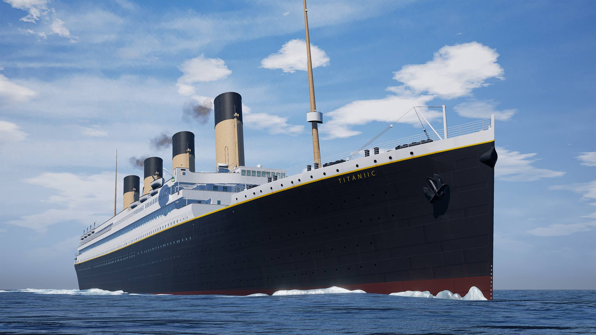 Graphic design of the ship TITANIC year 2016